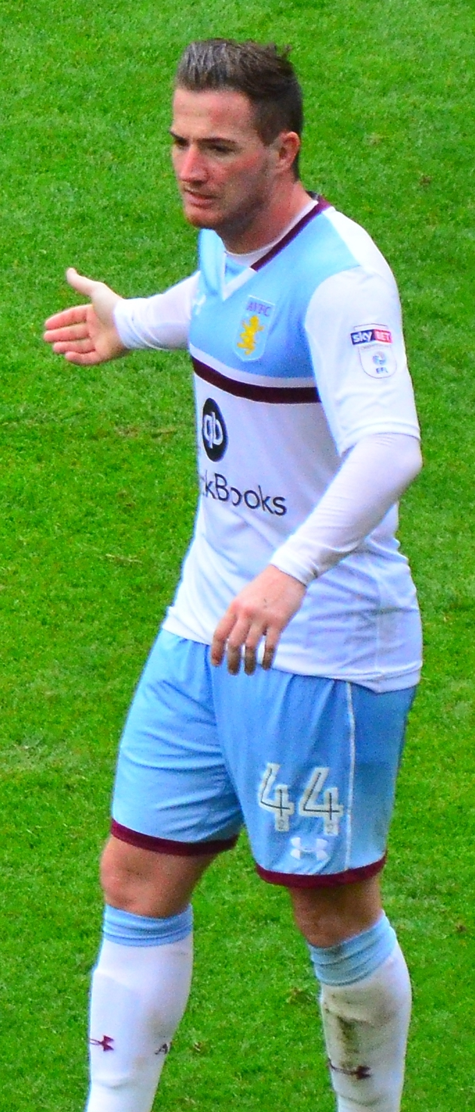 Ross McCormack playing for Aston Villa against Bristol City at Ashton Gate Stadium, Bristol on 27 August 2016